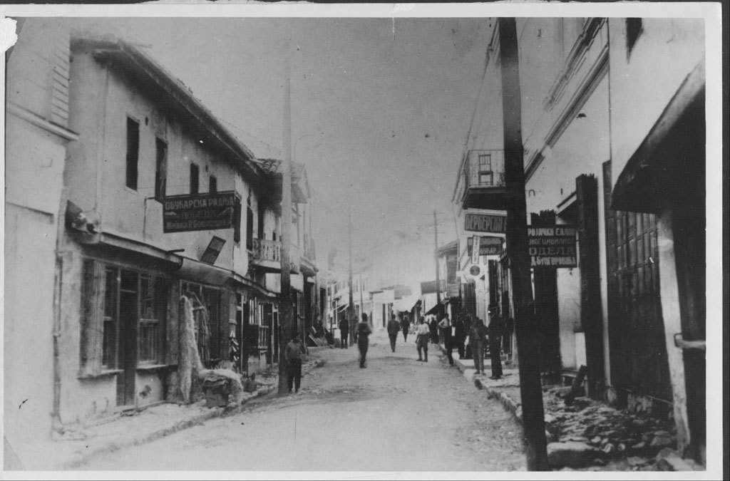 Kičevo, Macedonia